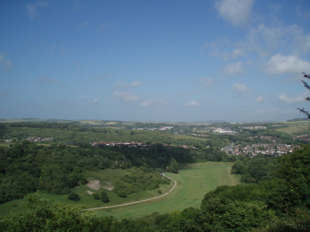 Wild Park View taken from close to Hollingbury Hillfort